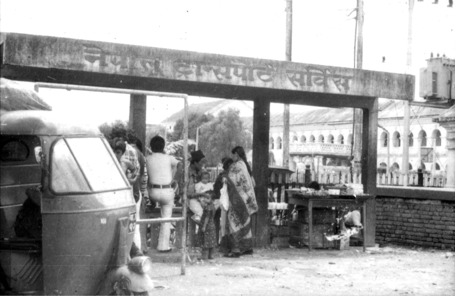 Bus stop of Nepal Transport Service at Rani Pokhari, Kathmandu.